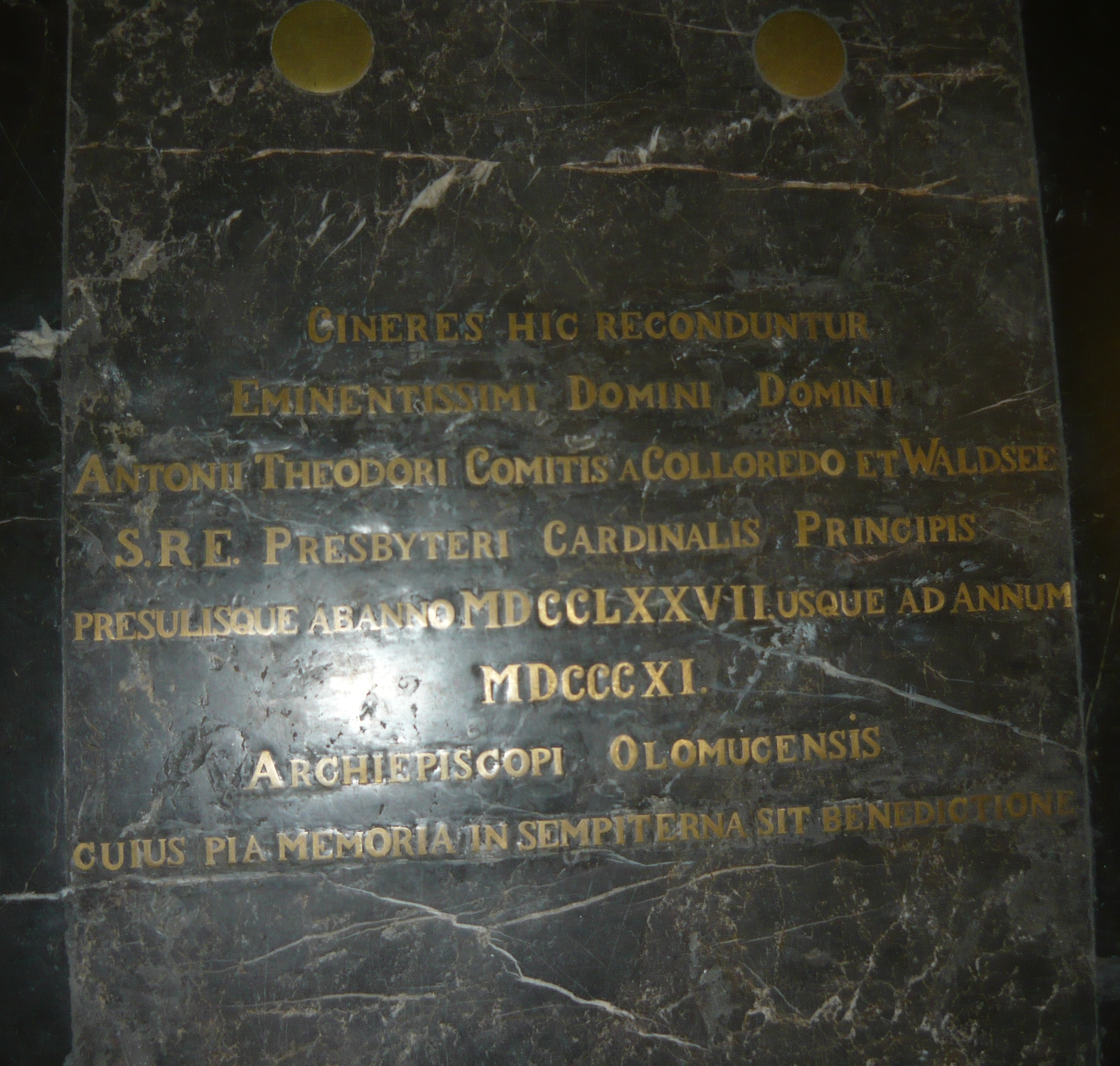 Headstone of archbishop Anton Theodor Colloredo-Waldsee in chapel of Mother of Sorrows in church of Saint Moritz in Kromeriz (Cremsir).